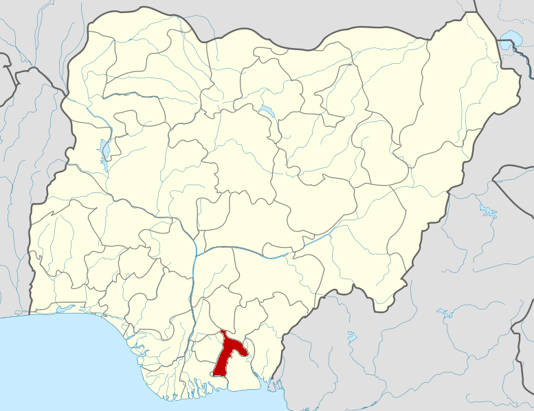 Map locator of Nigeria.